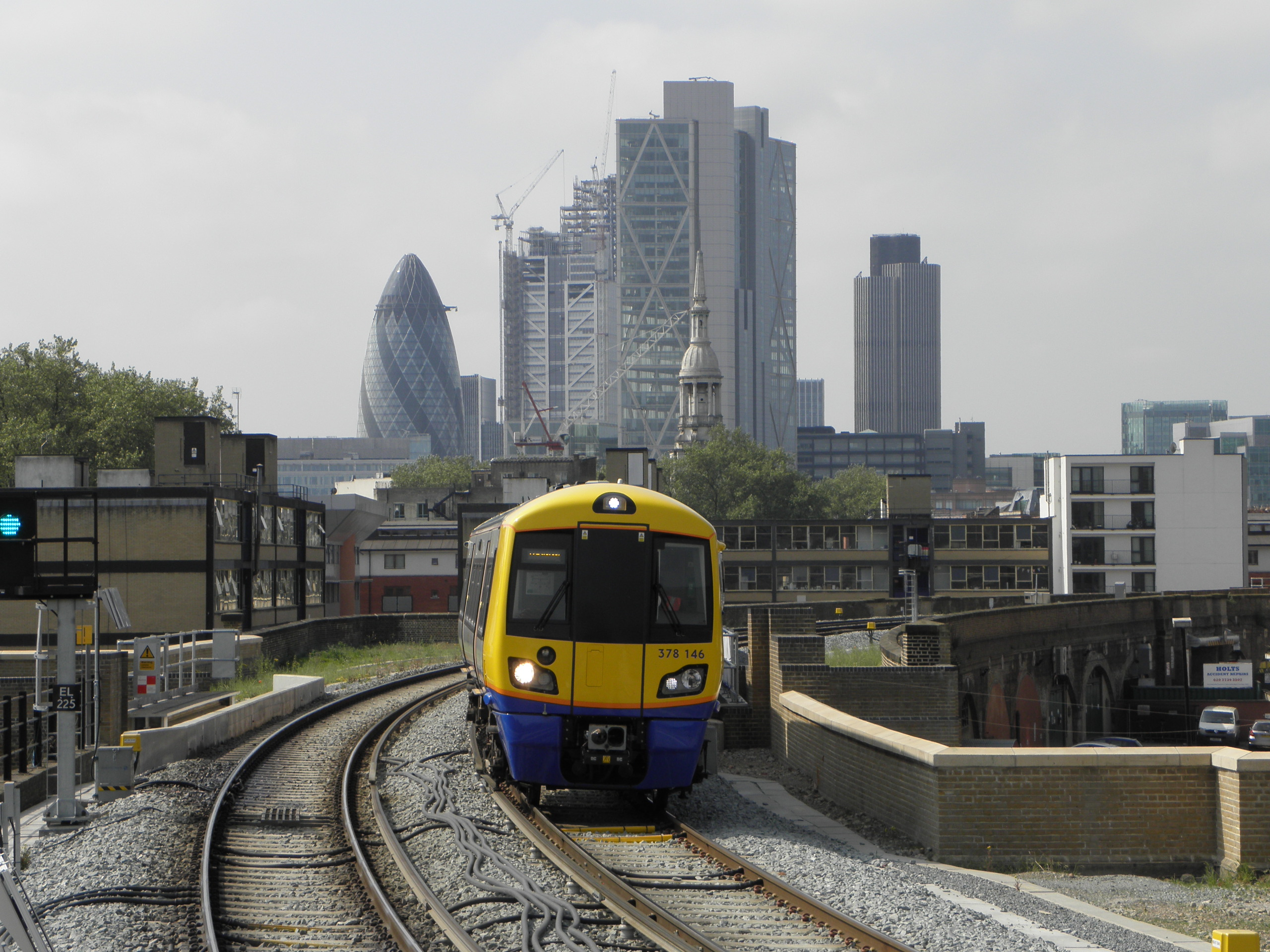 Class 378 unit 378146 approaches Hoxton with a Dalston Junction service. Note City of London skyline in background.